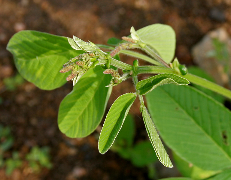 Desmodium dichotomum (Willd.) DC., at Ananthagiri Hills, in Rangareddy district of Andhra Pradesh, India.